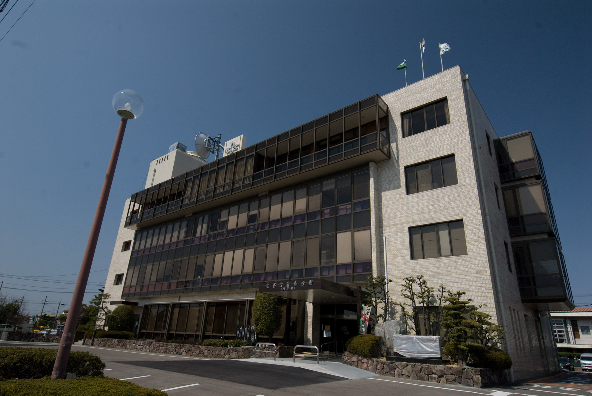 Kitanagoya City Office (West Office)